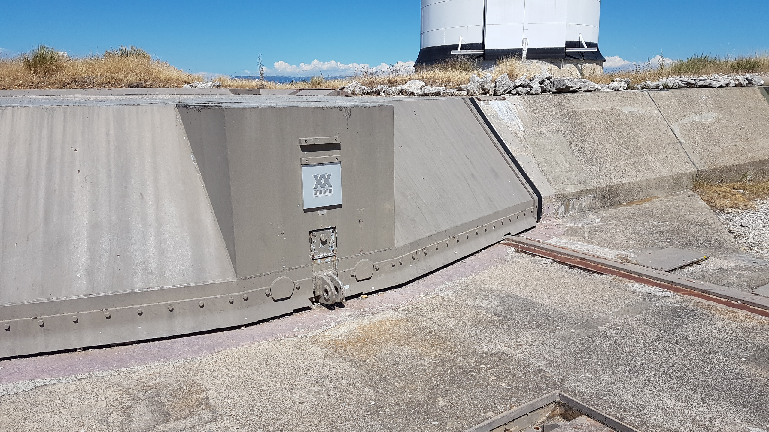 Missile silo cover 1.5m thick at Sirene Observatory, Plateau d'Albion